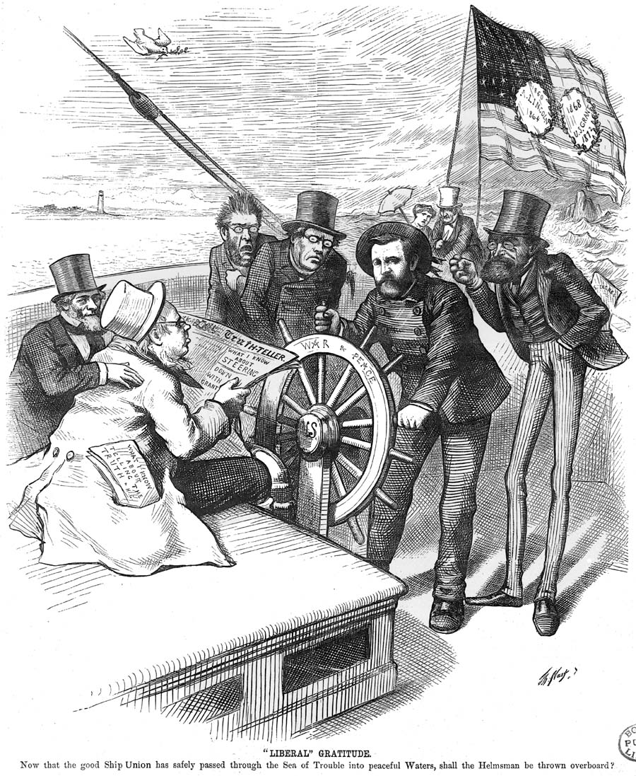 U.S. President Grant, at the helm of a ship, is surrounded by a mutinous crew consisting of presidential candidate Horace Greeley and U. S. Senators Carl Schurz, Thomas W. Tipton, Lyman Trumbull and Reuben Fenton.